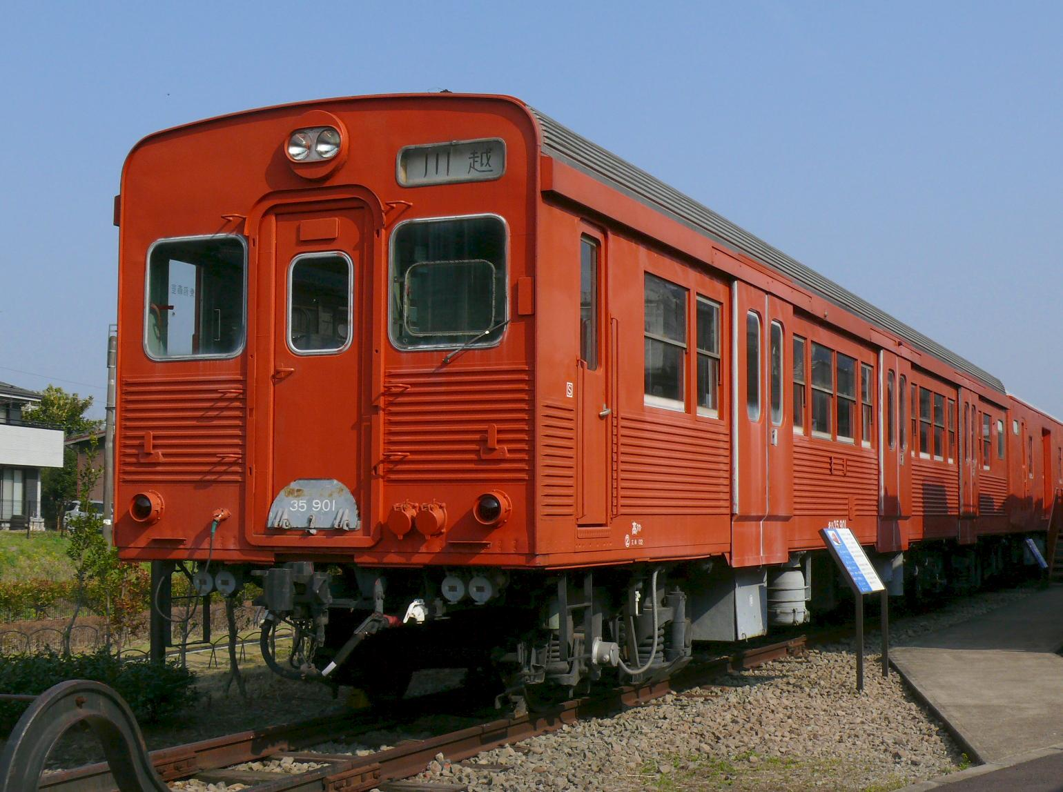 Japanese National Railway Type kiha35-901 Diesel railcar.